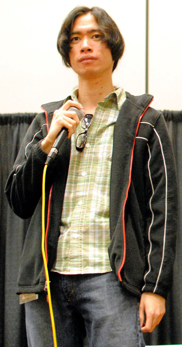 Photo of voice actor Micah Solusod